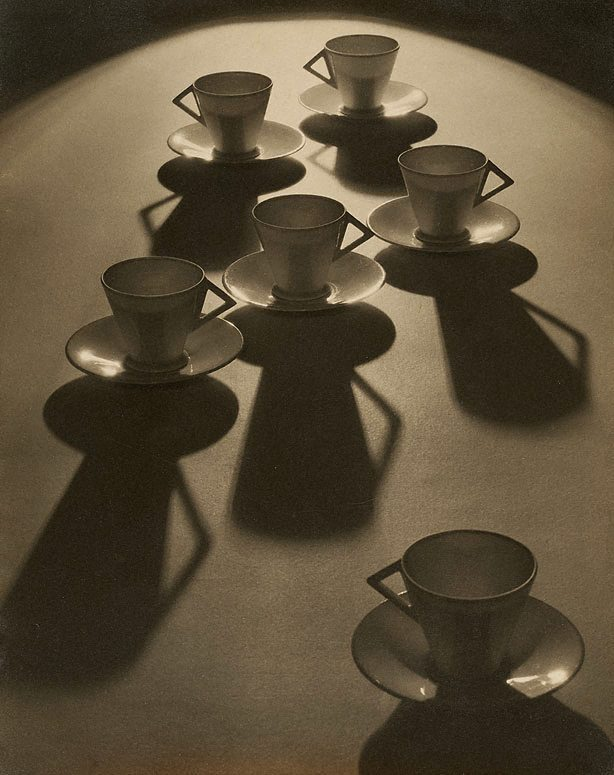 Modernist photograph of tea cups, taken by Olive Cotton